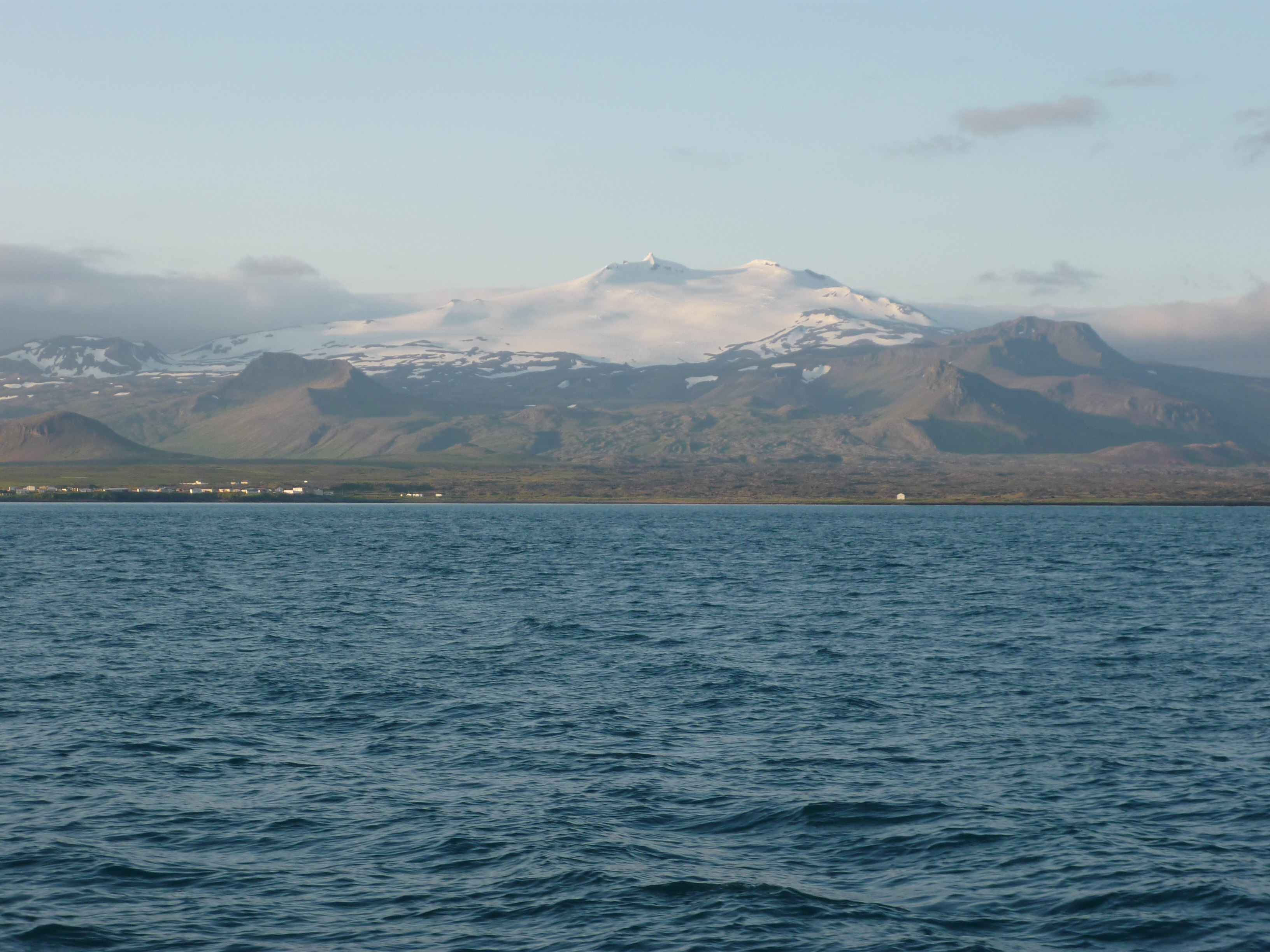 Snæfellsjökull from a challenge 72